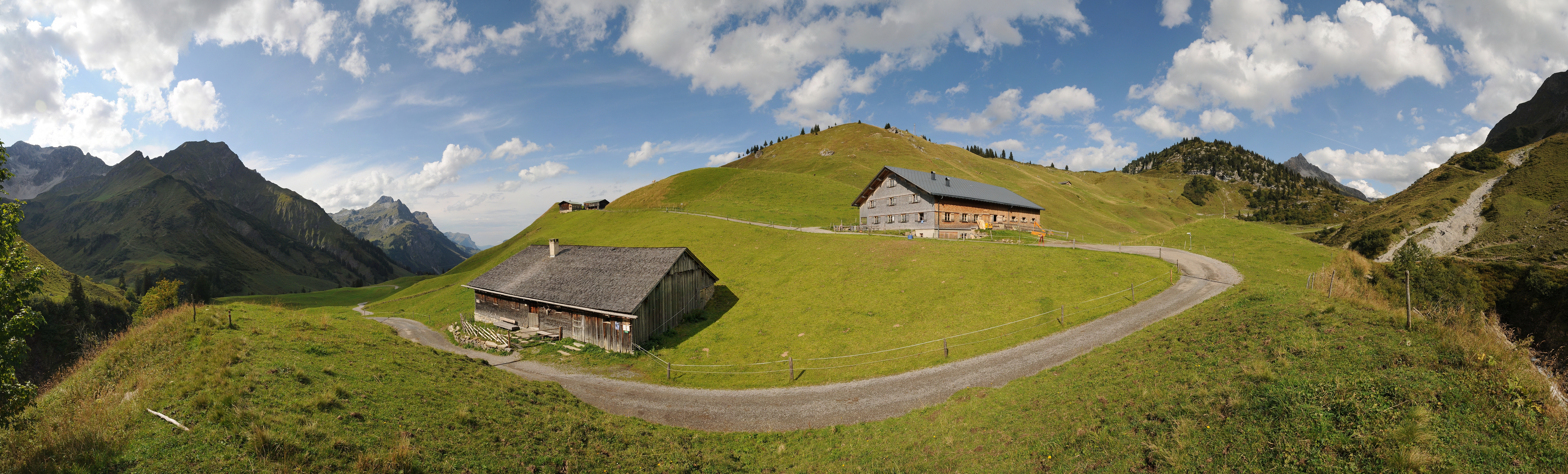 The old Sennalpe Batzen (lower building) and the new Alpe Batzen (upper building), two chalets surrounded by mountain pastures in Schröcken, Bregenzerwald, Vorarlberg.